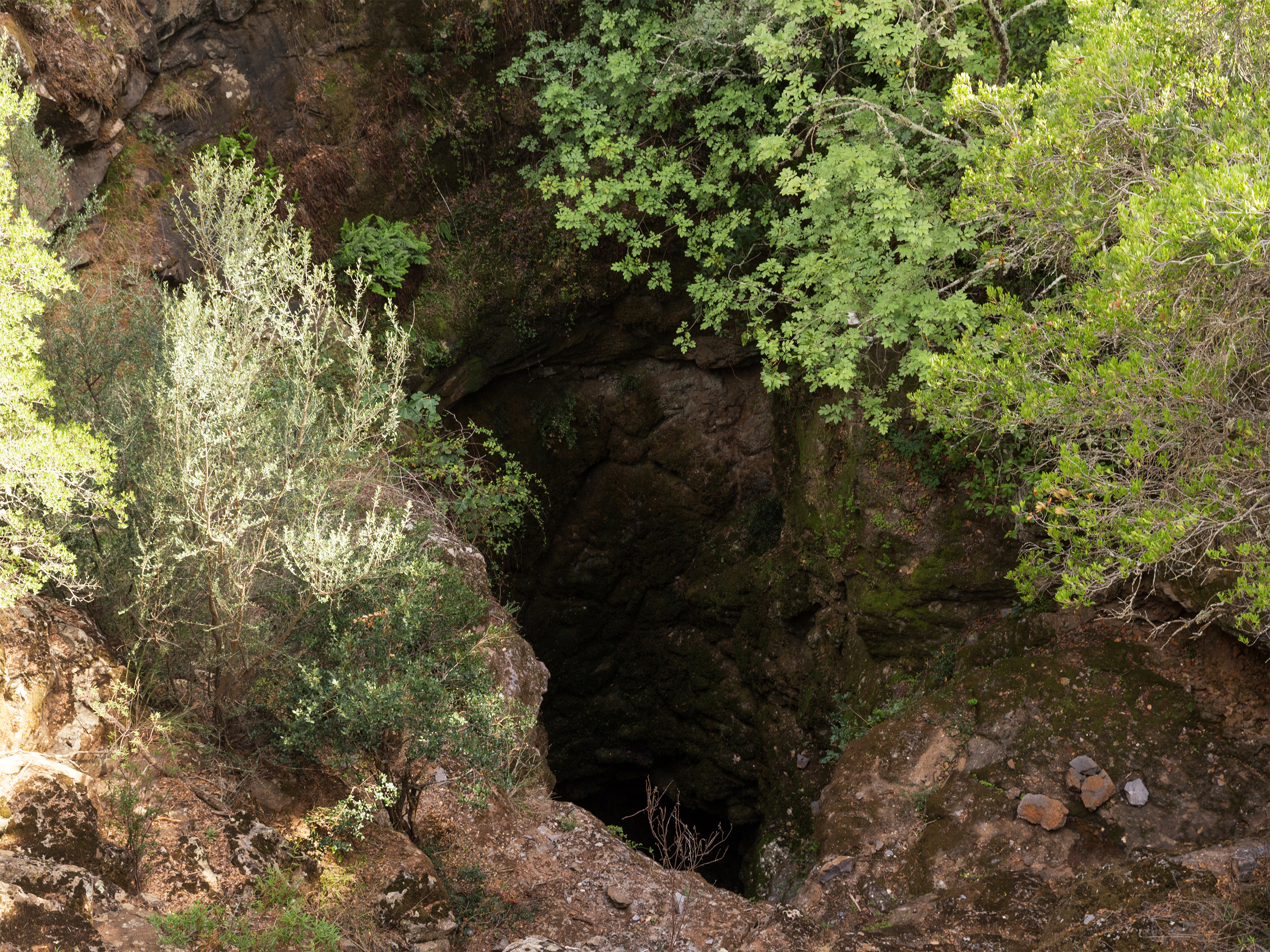 Carst Cave "Voragine di Golgo", Sardinia